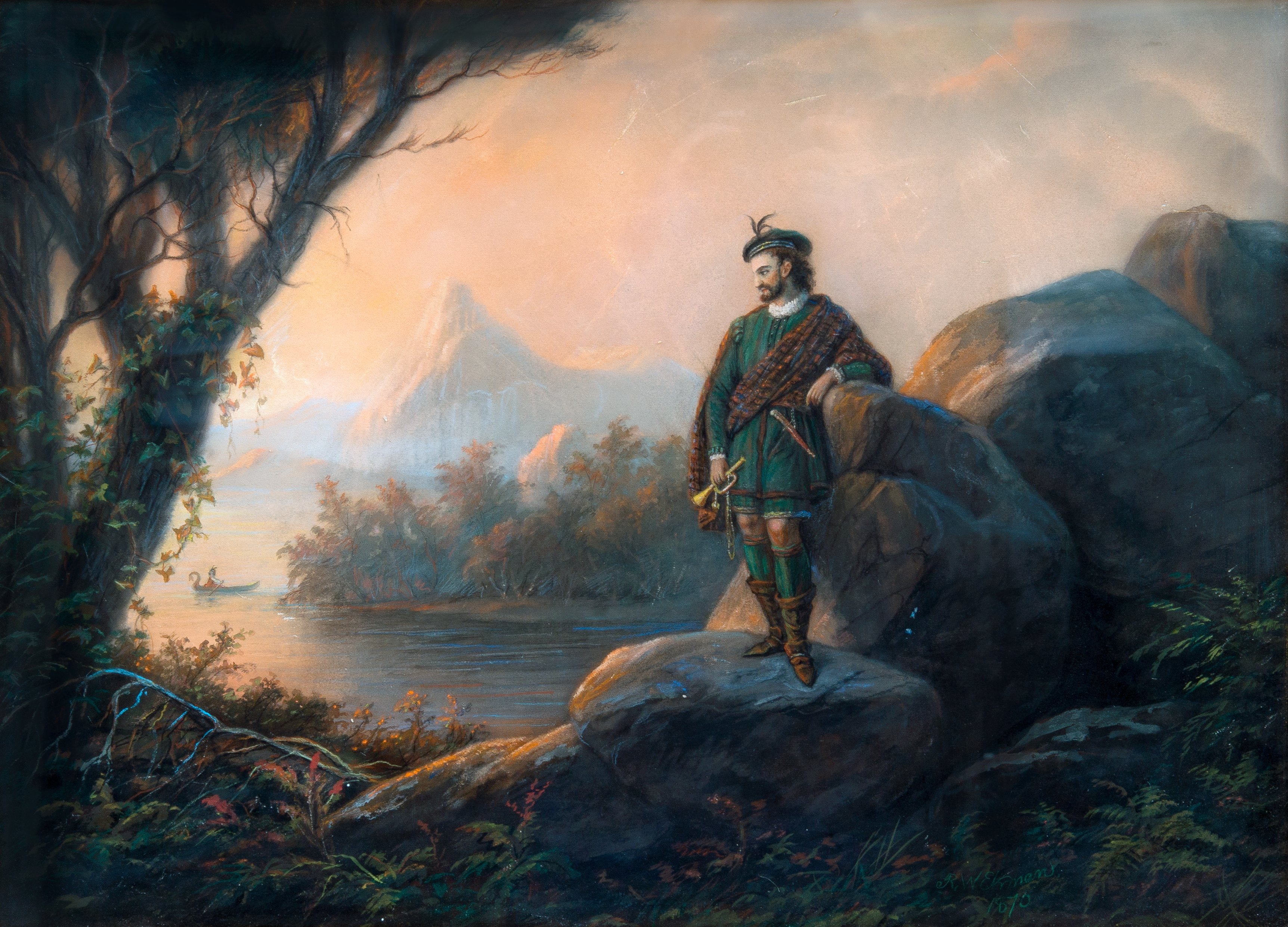 Robert Wilhelm Ekman Romantic view. 1873. Pastel 44x61 cm.